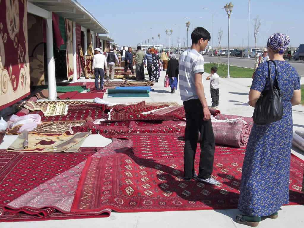 Carpets for sale at the Tolkuchka Bazaar, Ashgabat, Turkmenistan.